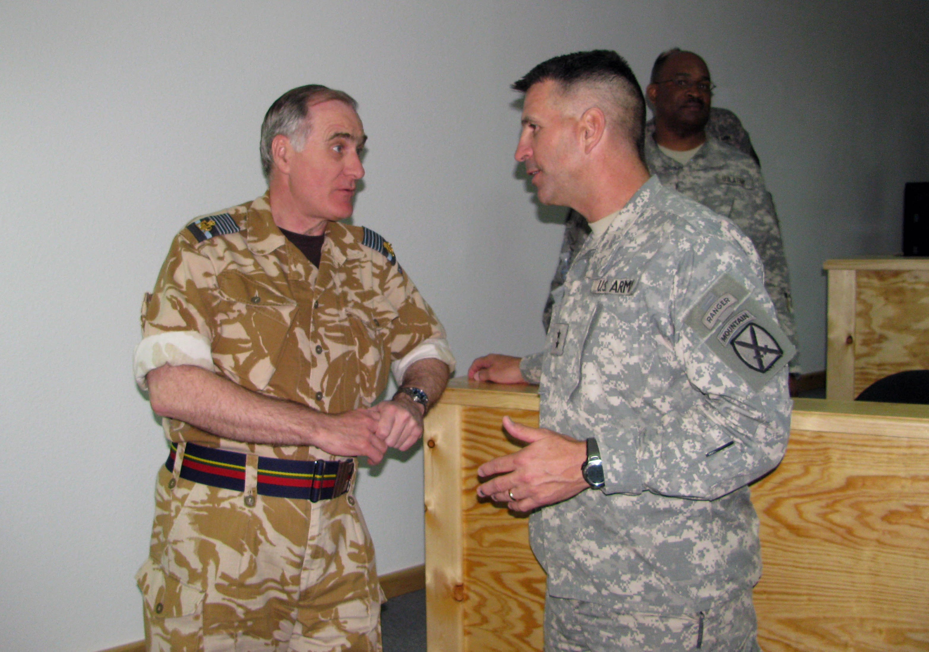 Air Chief Marshal Sir Graham Eric "Jock" Stirrup, British Chief of the Defense Staff, speaks with Maj. Gen. Mike Oates, 10th Mountain Division commanding general, at Contingency Operating Base Basra on March 31, during a tour of the new Multi-National Division-South headquarters building.